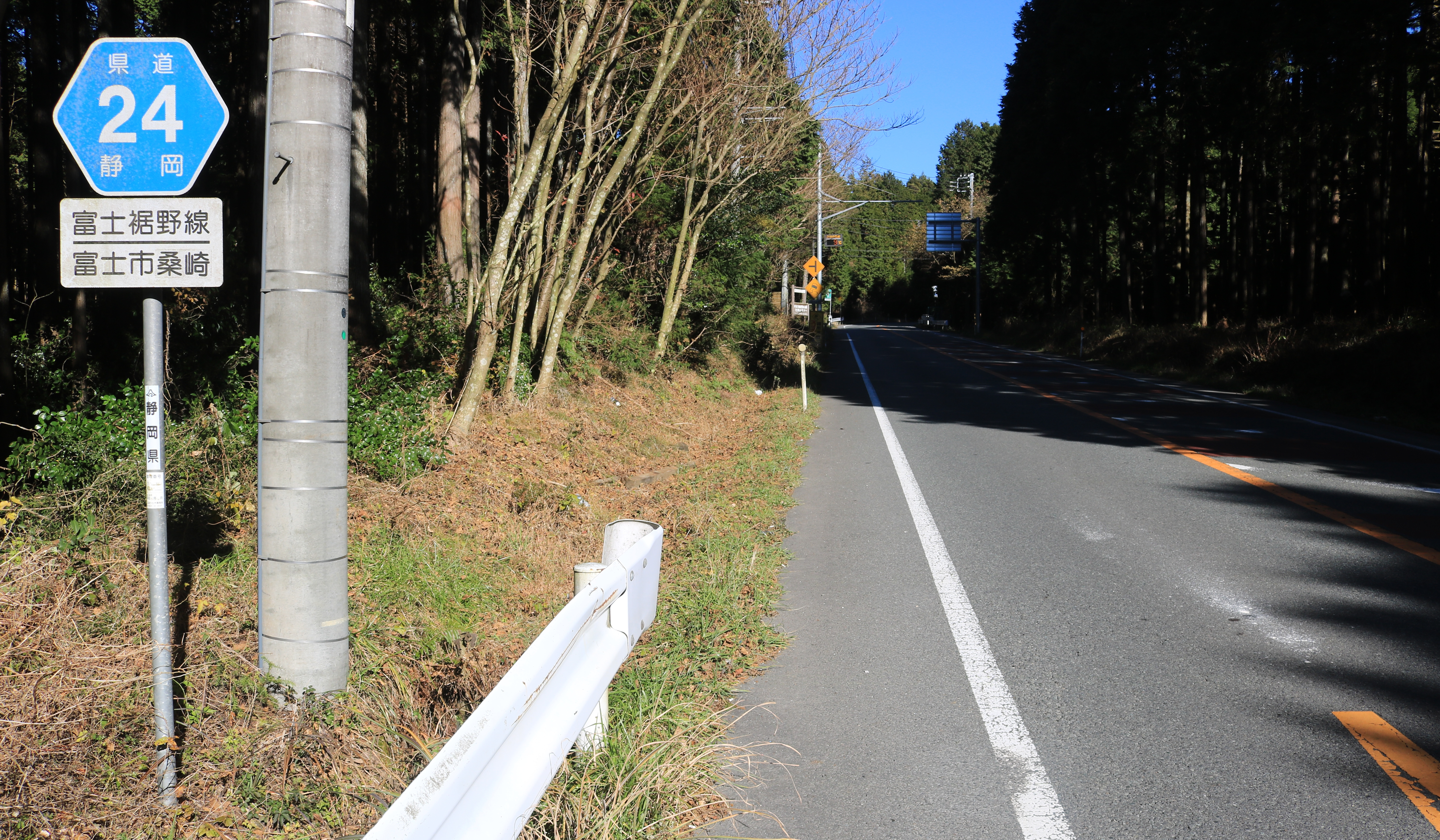 Shizuoka Prefectural Road Route 24 in Kazaki, Fuji, Shizuoka prefecture, Japan.